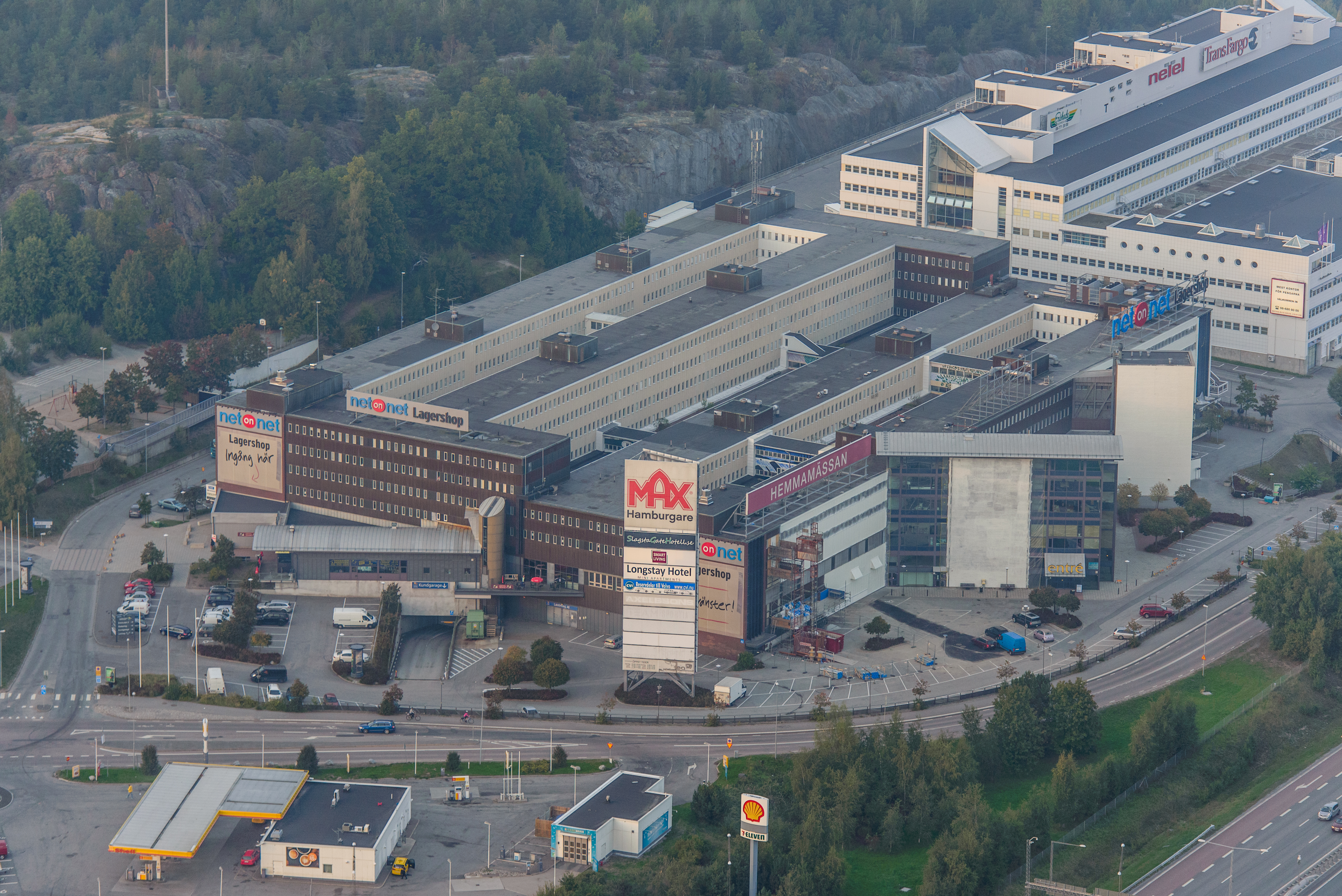 Slagsta strand.